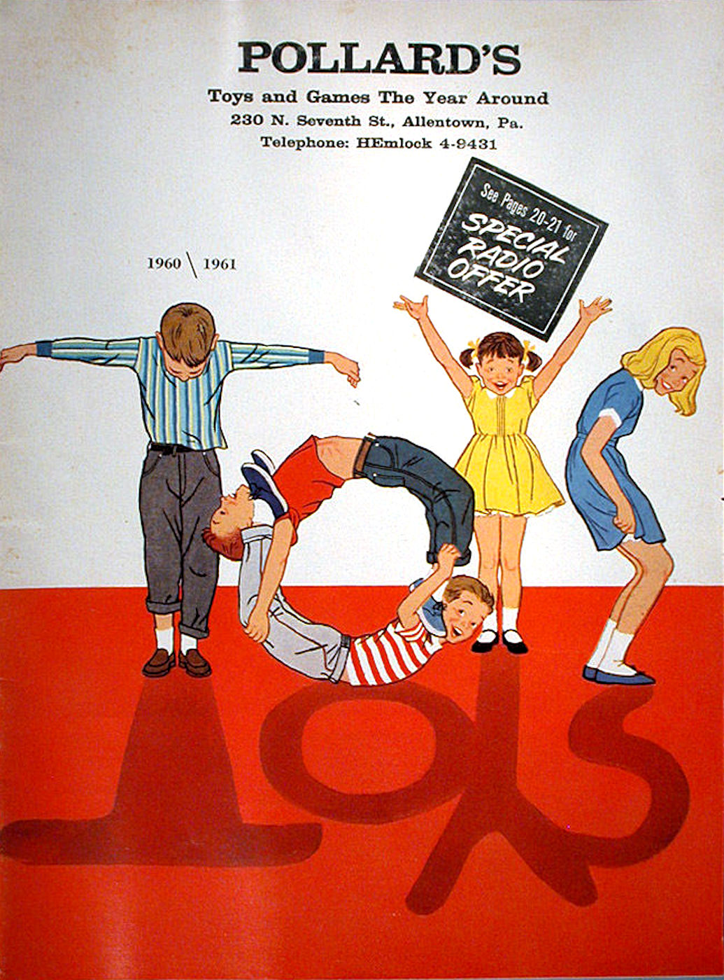 Pollard Tire Company - Toy Catalog - Allentown PA